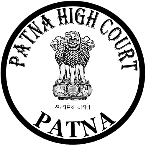 Logo of The High Court of Judicature at Patna